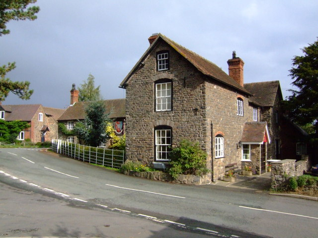 Howard Arms, Ditton Priors Traditional village local in every big way.